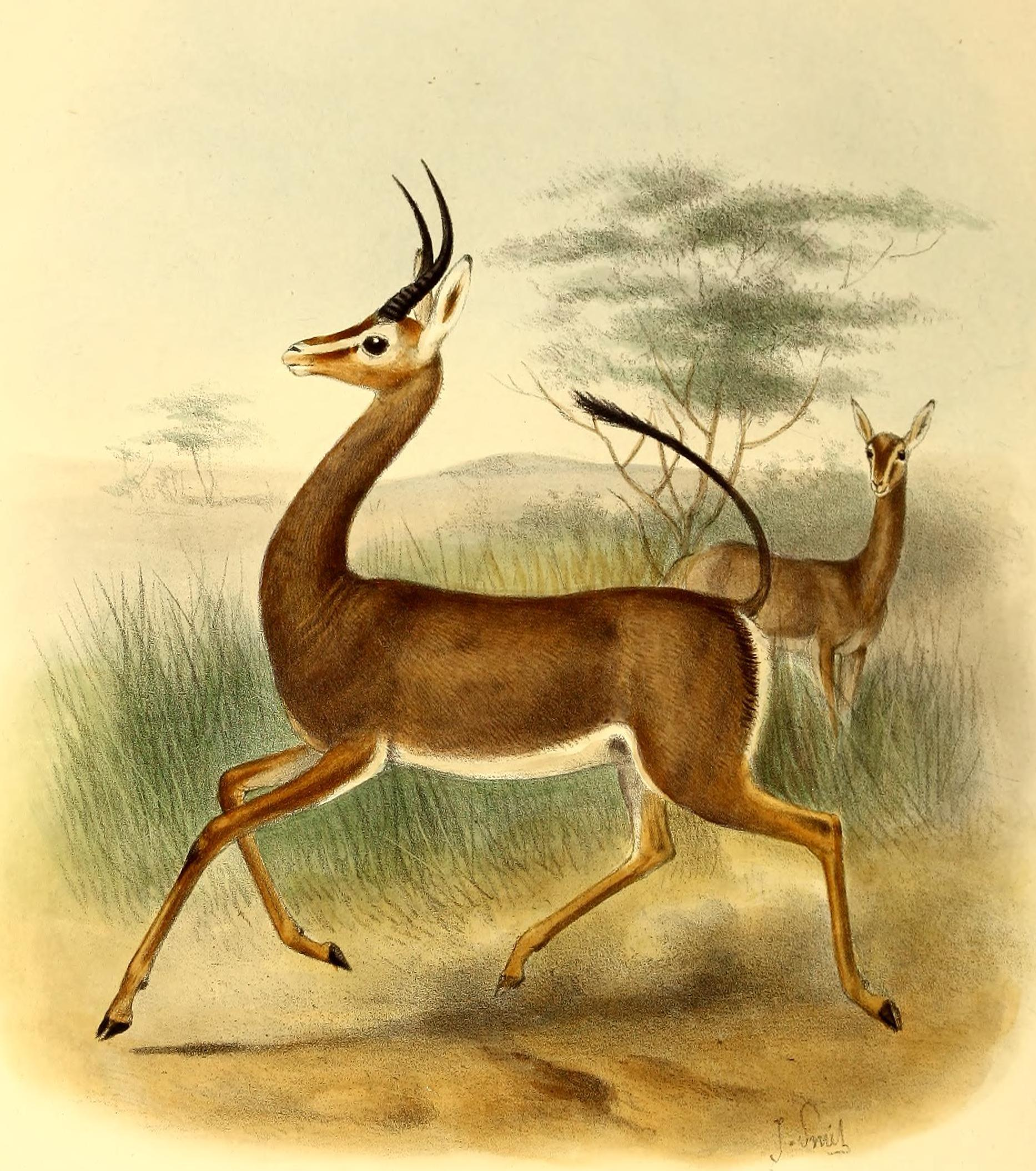 Dibatag (Ammodorcas clarkei) Identifier: bookofantelopes318942scla Title: The book of antelopes Year: 1894 (1890s) Authors: Sclater, Philip Lutley, 1829-1913 Thomas, Oldfield, 1858-1929 Wolf, Joseph, 1820-1899, ill Williams, Alpheus F., former owner. DSI National Zoological Park (U.S.), former owner. DSI Russell E. Train Africana Collection (Smithsonian Institution. Libraries) DSI Subjects: Antelopes Publisher: London : R.H. Porter